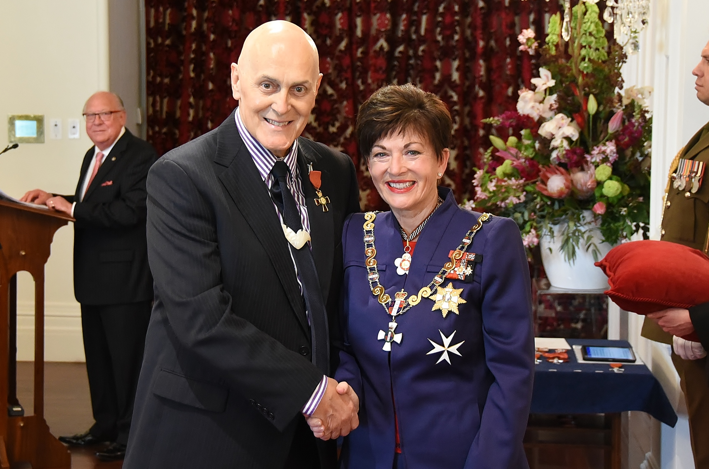 Steve Sumner, after his investiture as ONZM, for services to football, by the governor-general, Dame Patsy Reddy, on 18 October 2016